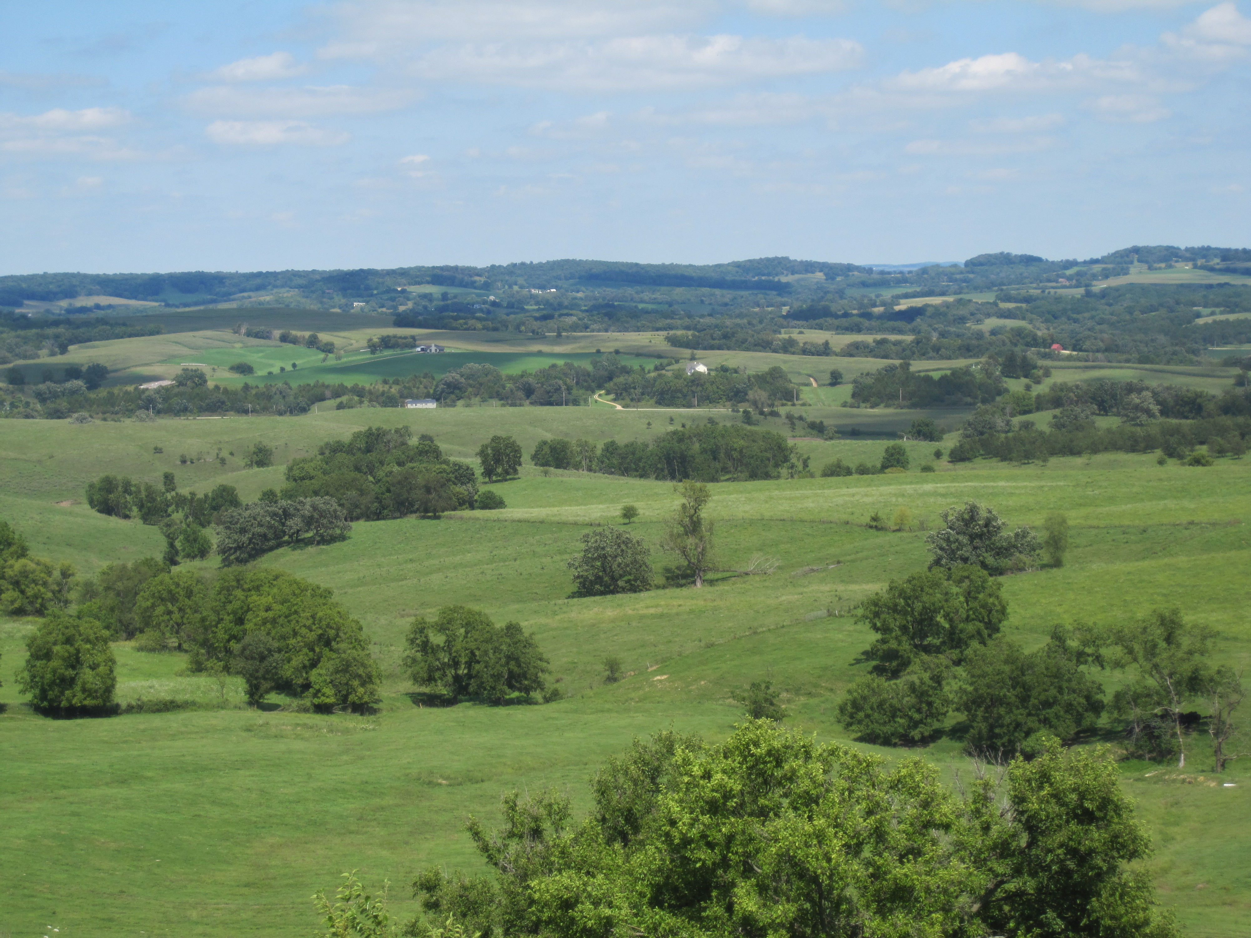 The rolling hills of northwestern Illinois